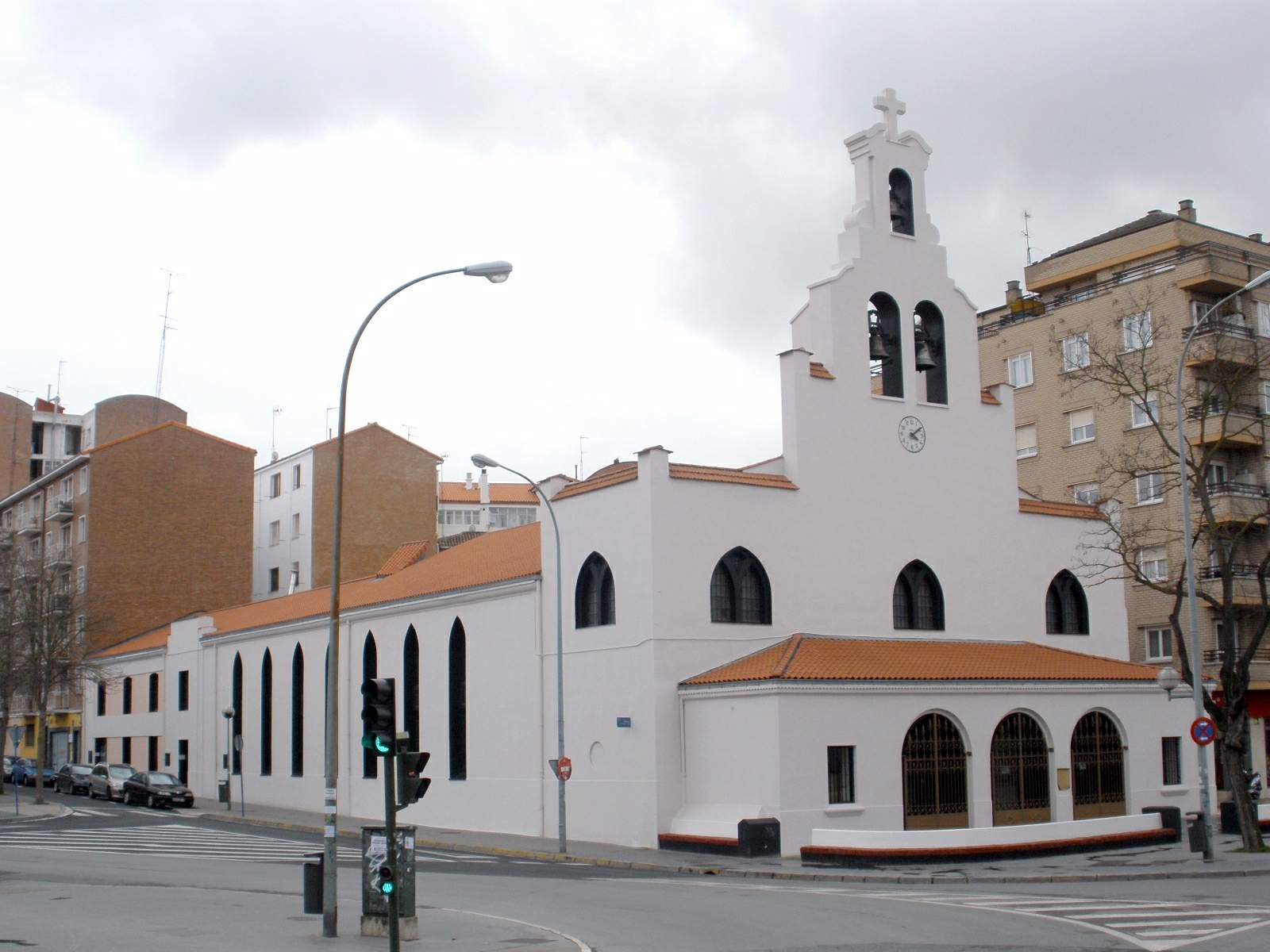 Church of San Cristóbal, Vitoria-Gasteiz